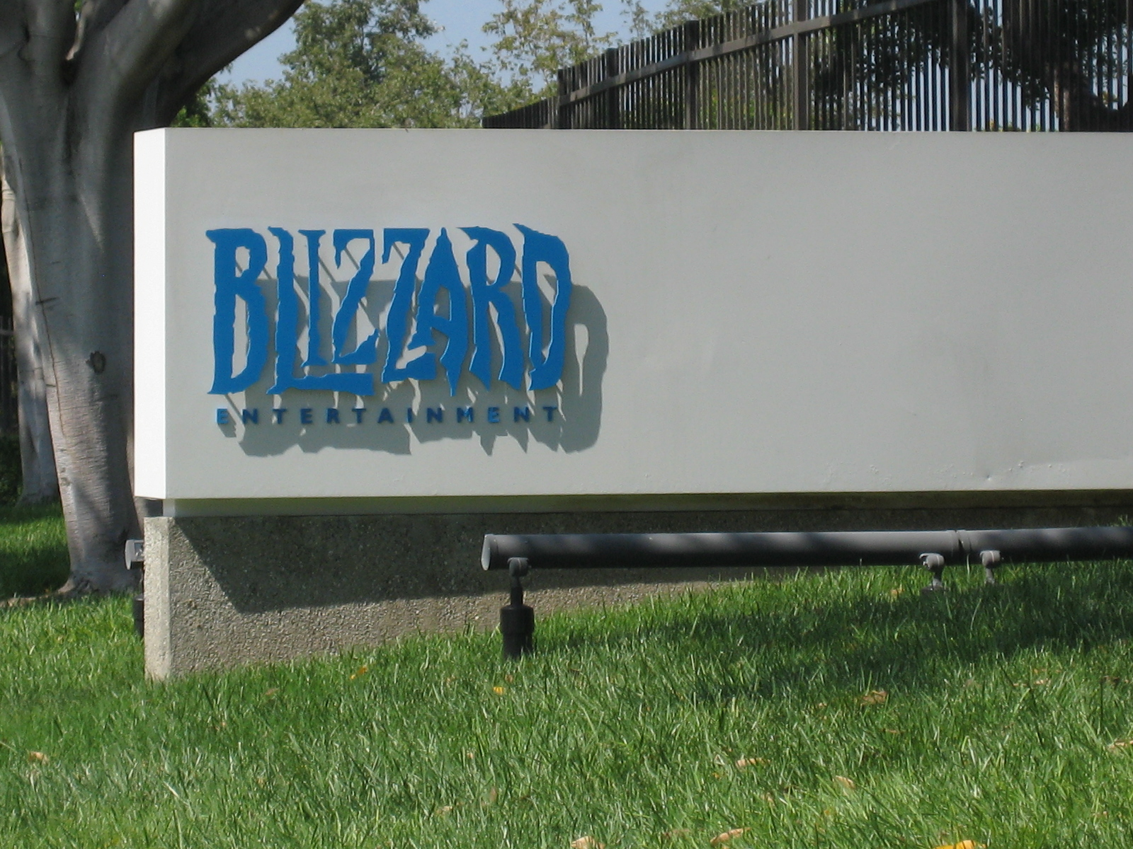 blizzard sign